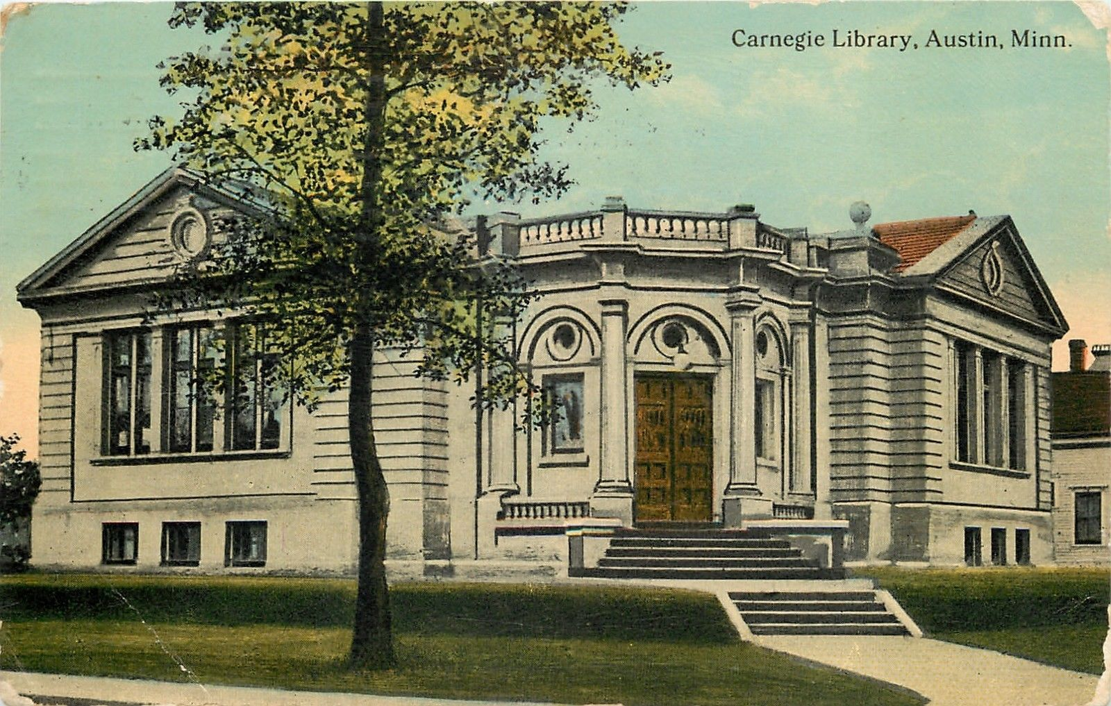 Postcard published by Bloom of Minneapolis, postmarked 4 January 1912, showing the 1901 Carnegie library in Austin, Minnesota, United States